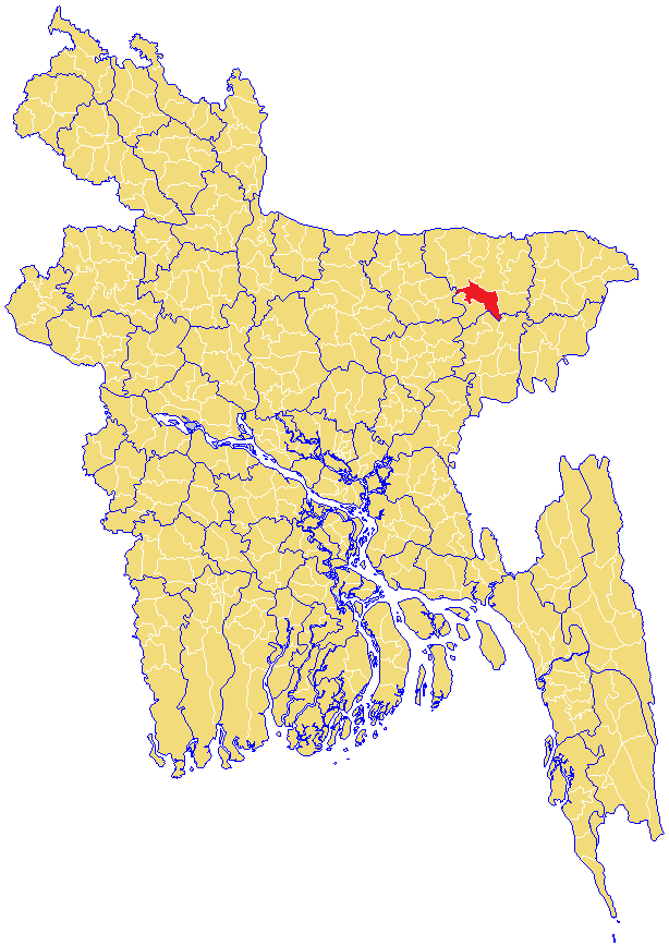 Map of Derail Upazila in Sunamganj District, Sylhet Division, Bangladesh